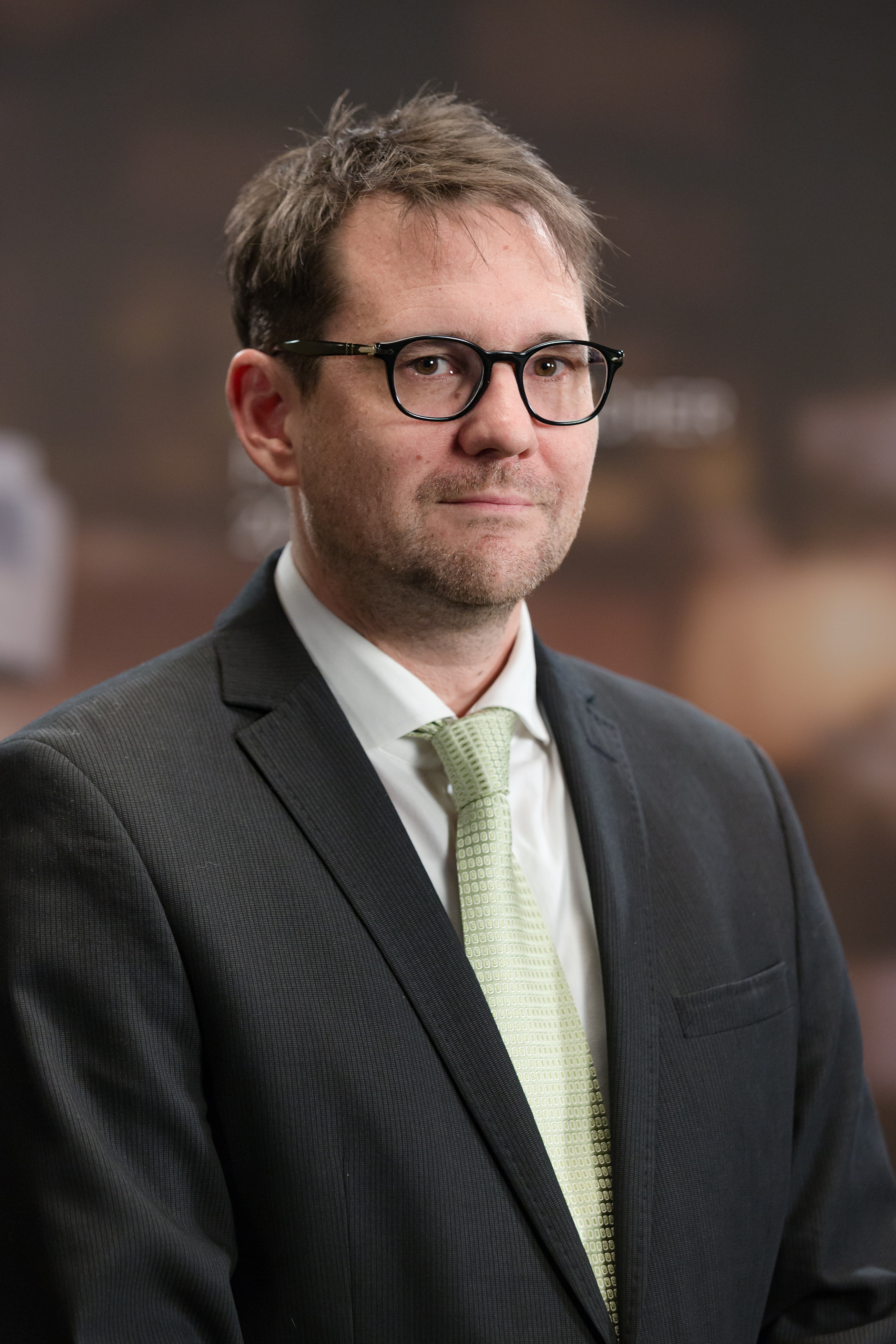 Tommy Pridnig, co-writer and co-producer of Thank You for Bombing, at the Austrian Film Awards 2017 (Rathaus, Vienna,Austria).